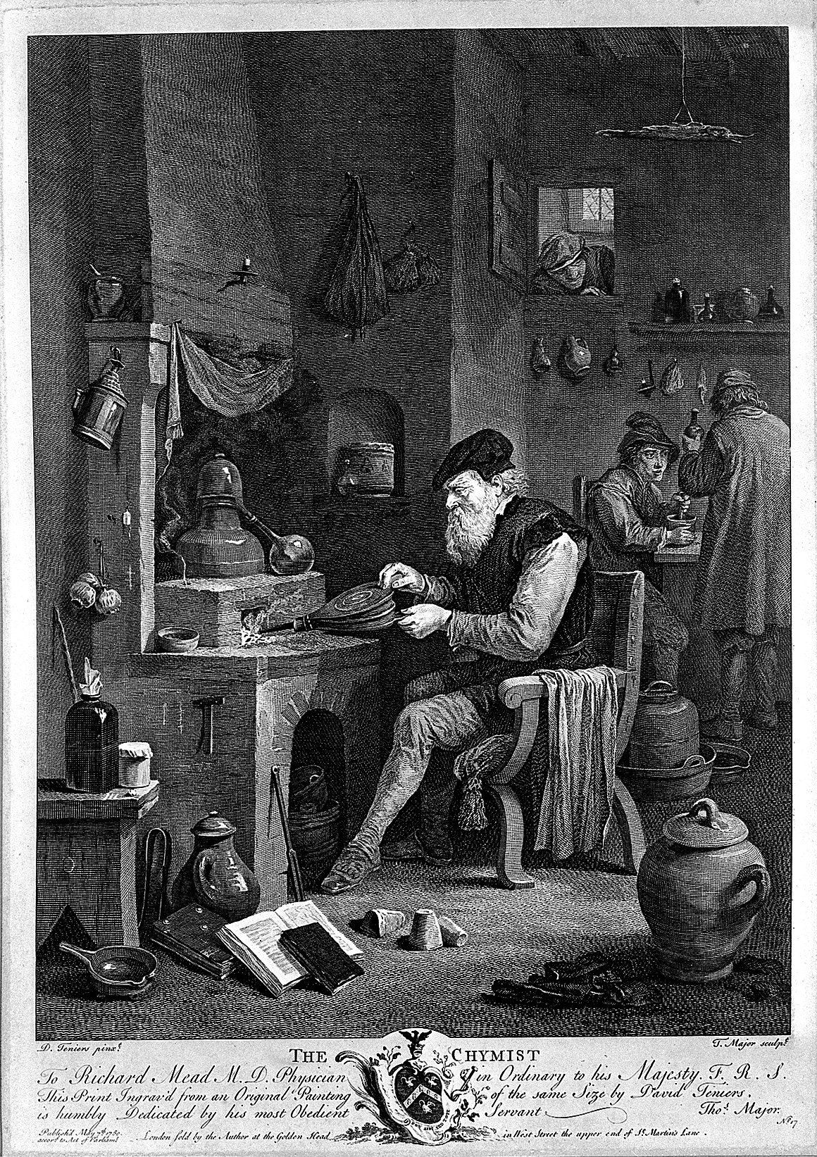 An alchemist using bellows in his furnace. Etching by T. Major, 1750, after D. Teniers the younger. Iconographic Collections Keywords: David Teniers; Thomas Major